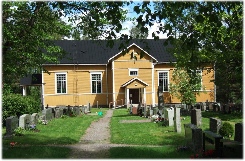 Somerniemi Church in Somero, Finland, seen from the south.